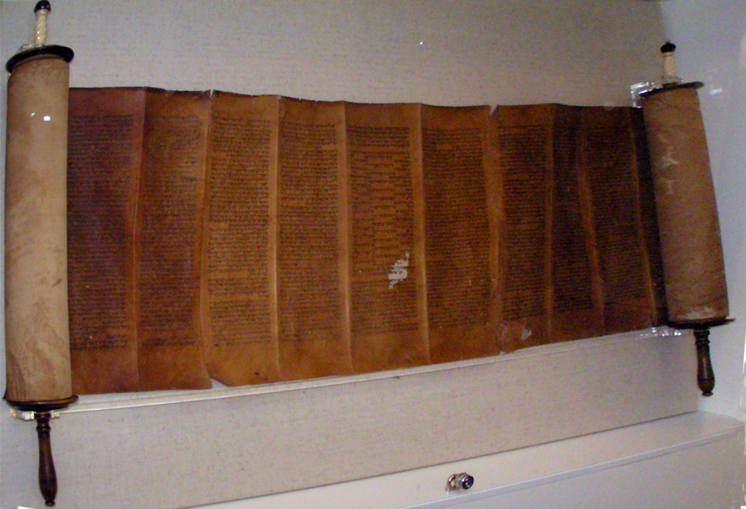 Torascroll, Germany about 1830. Part of the exhibition in the Jewish Museum Westphalia, Dorsten, Germany